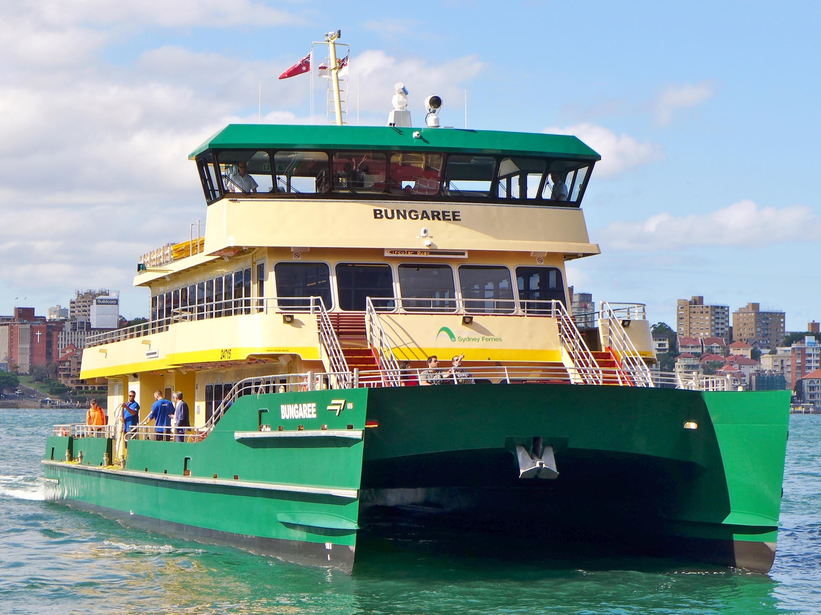 Sydney Ferries' Emerald-class ferry Bungaree approaching Circular Quay, Sydney